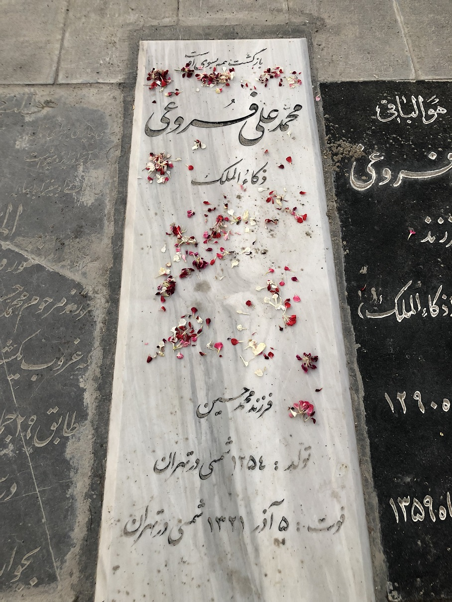 Ibn Babawayh Cemetery